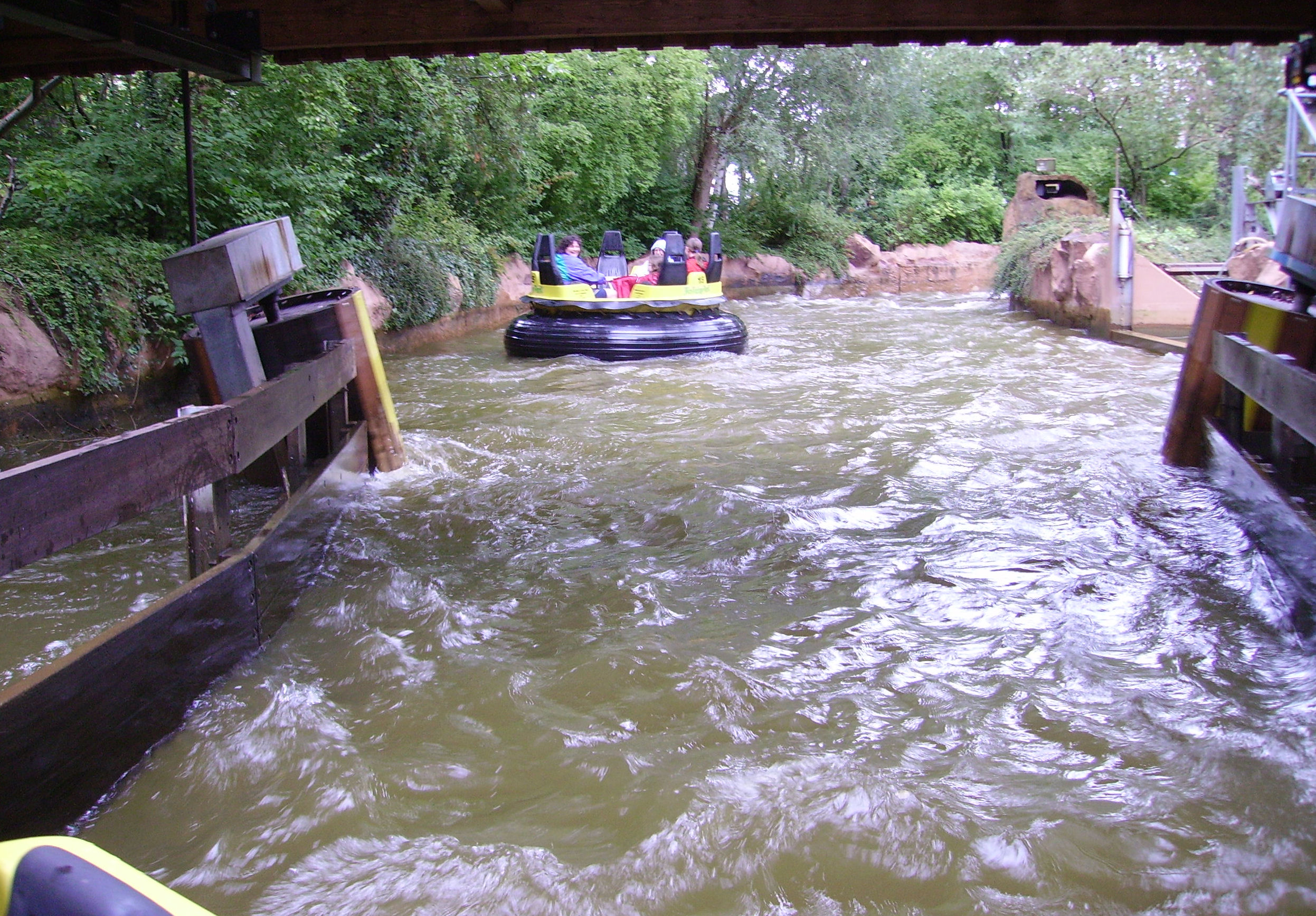 Holiday Park in Germany